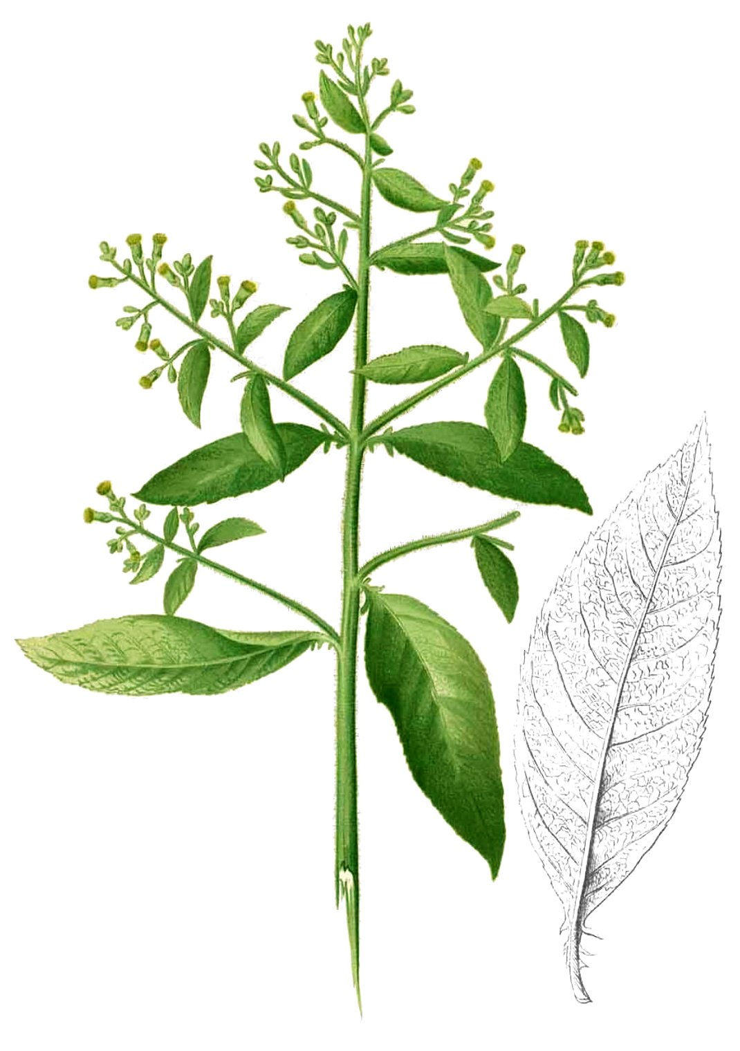 Plate from book